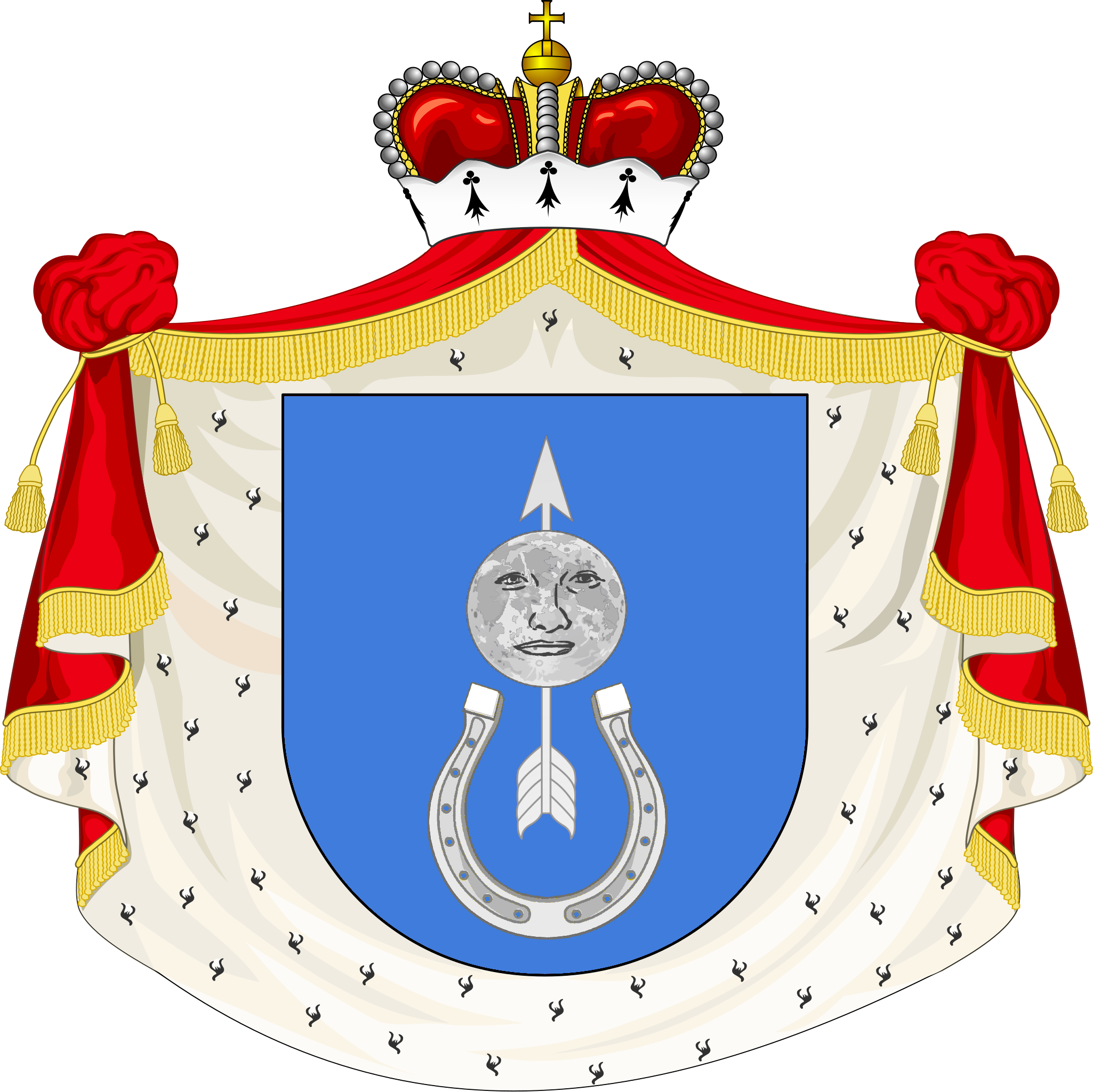 coat of arms of family Światopełk-Mirski